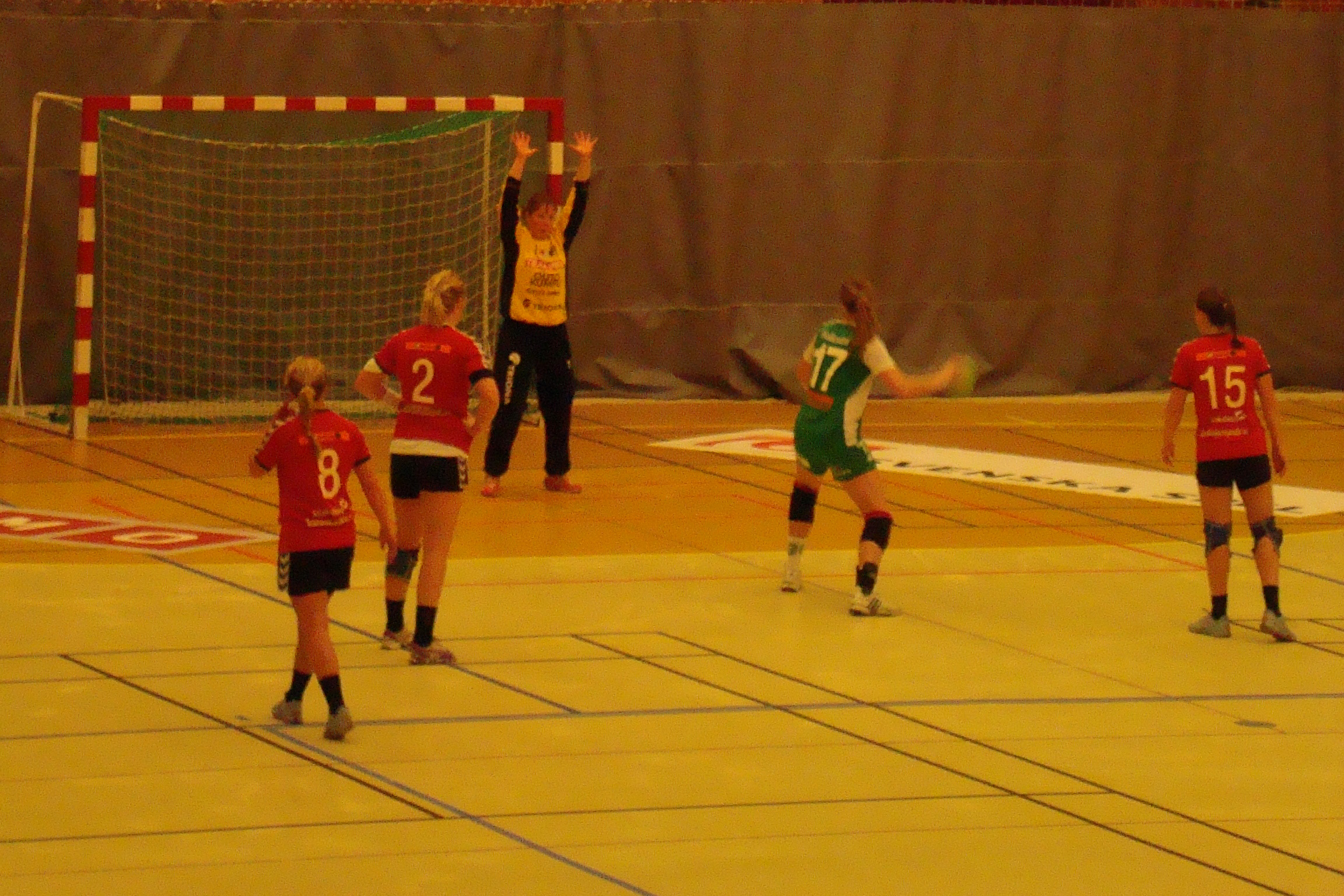 AvestaBrovallen HF vs Skuru IK in Kopparhallen, Avesta, Sweden. 7 meter penalty.